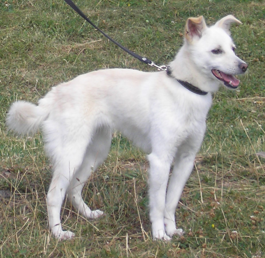 Dog walking